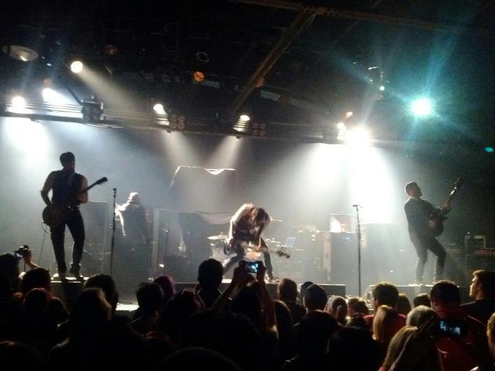 thelastplaceyoulook band live